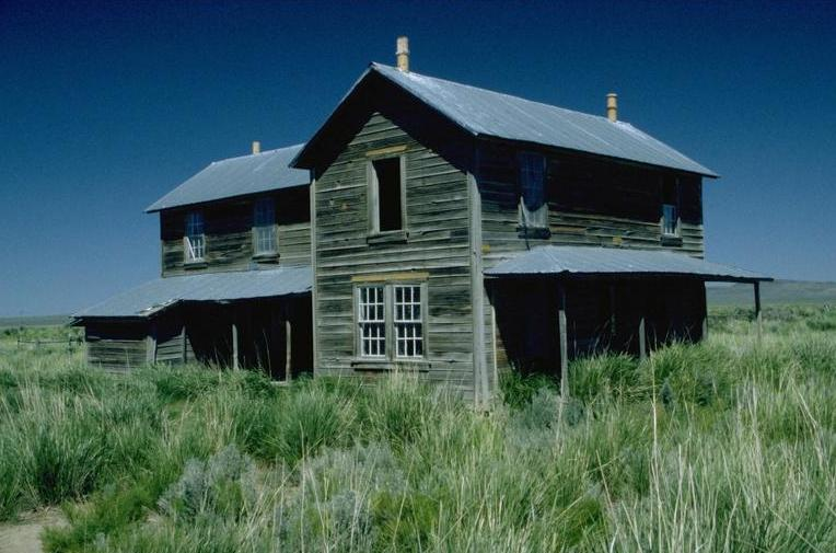 Main ranch house at the historic Shirk Ranch in Lake County, Oregon